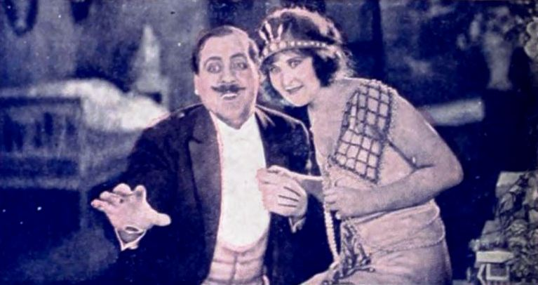 Tinted still used in an advertisement for the American drama film Stardust (1922) with George Humbert and Hope Hampton, from the insert after page 42 of the December 24, 1921 Exhibitors Herald. Caption under still in advertisement: "I'll make you the greatest star in the world."